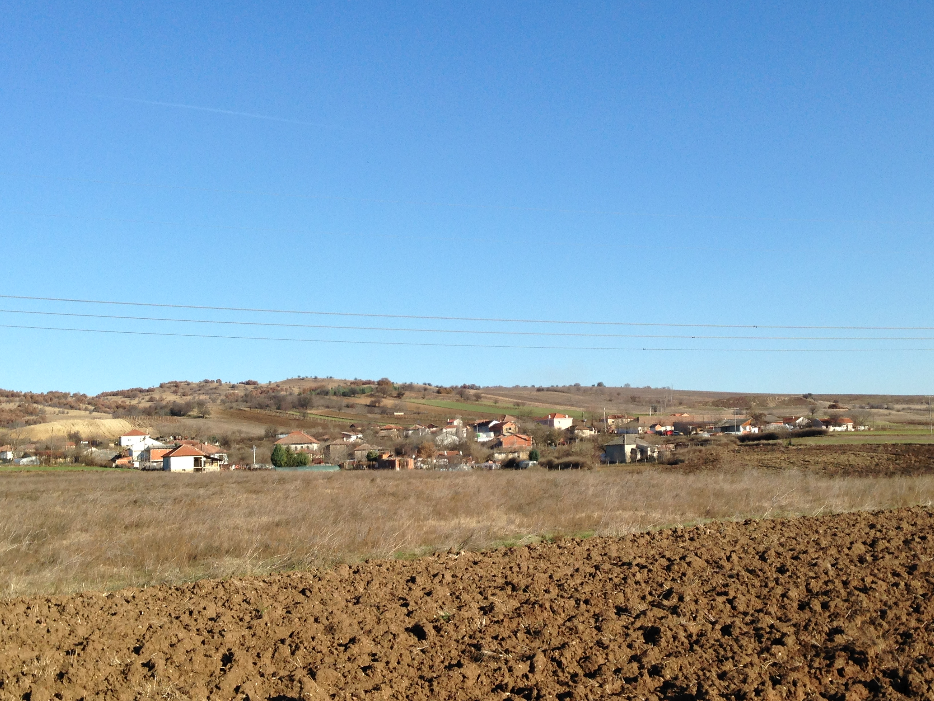 village of Sojaklari near Veles, Macedonia